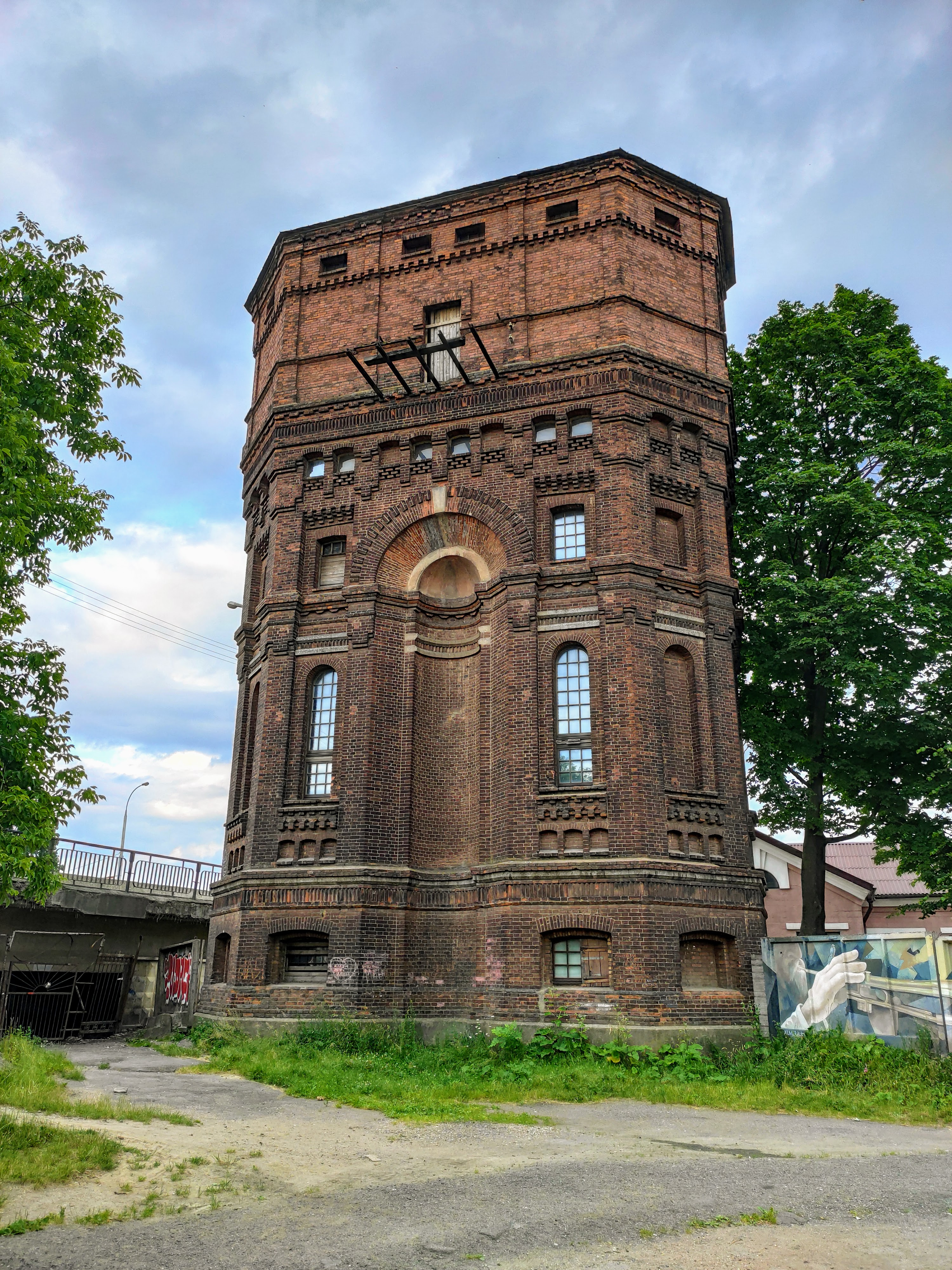 Water tower in Minsk